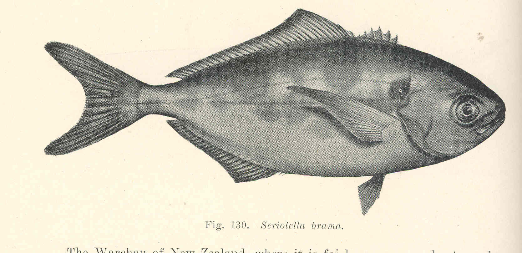 Seriolella brama Subject: Stromateidae, Seriolella Tag: Fish